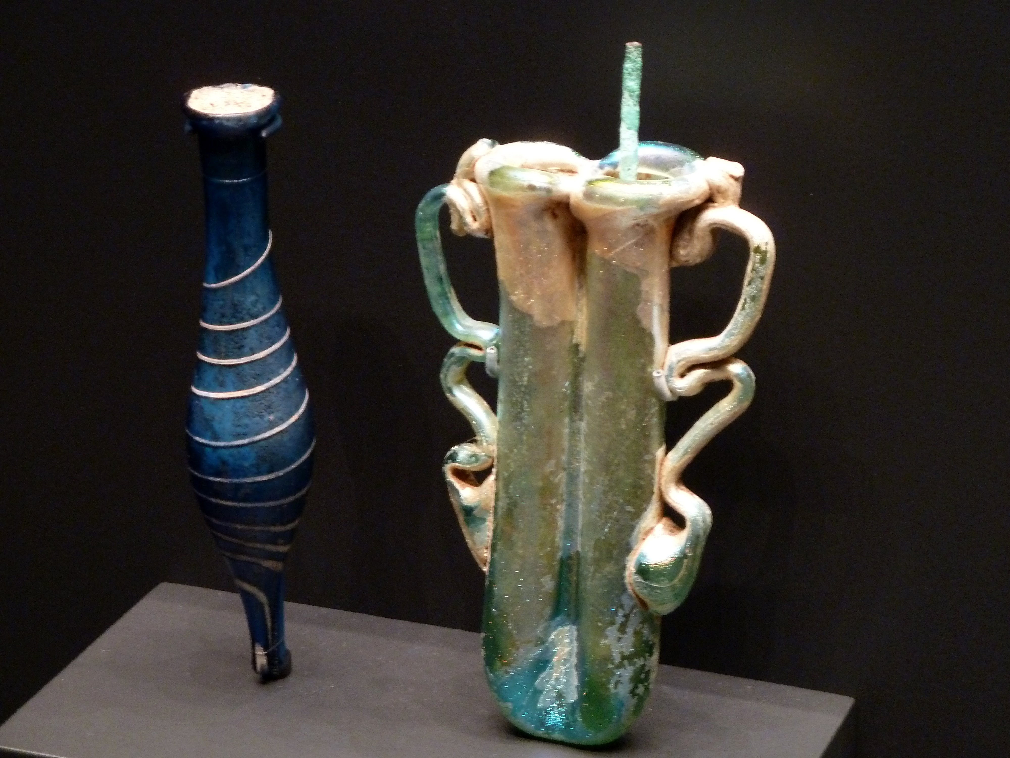 Blue Perfume Flask with a White Trail (Roman, AD 1-100) and Two-Part Eye Makeup Container (Roman, AD 200-400)